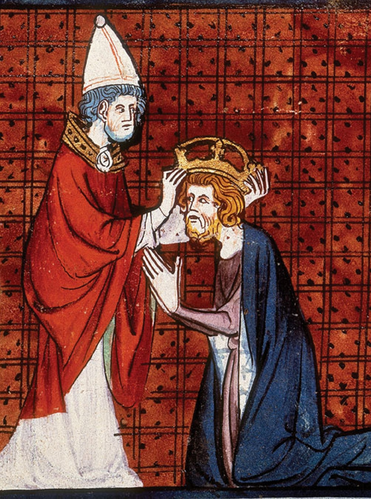 coronations Charlemagne